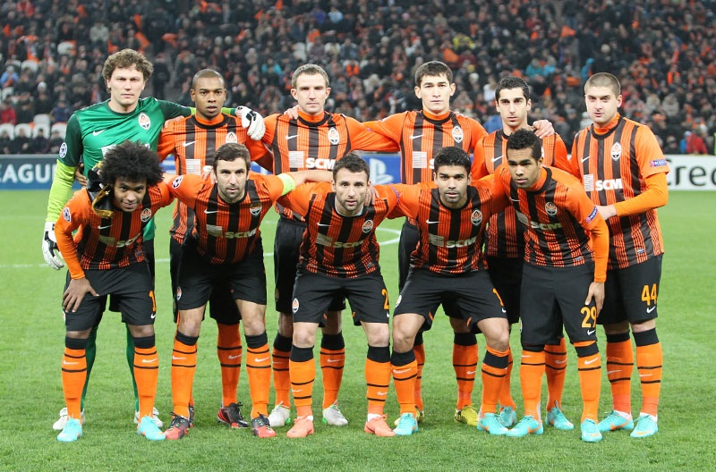 players of Shakhtar